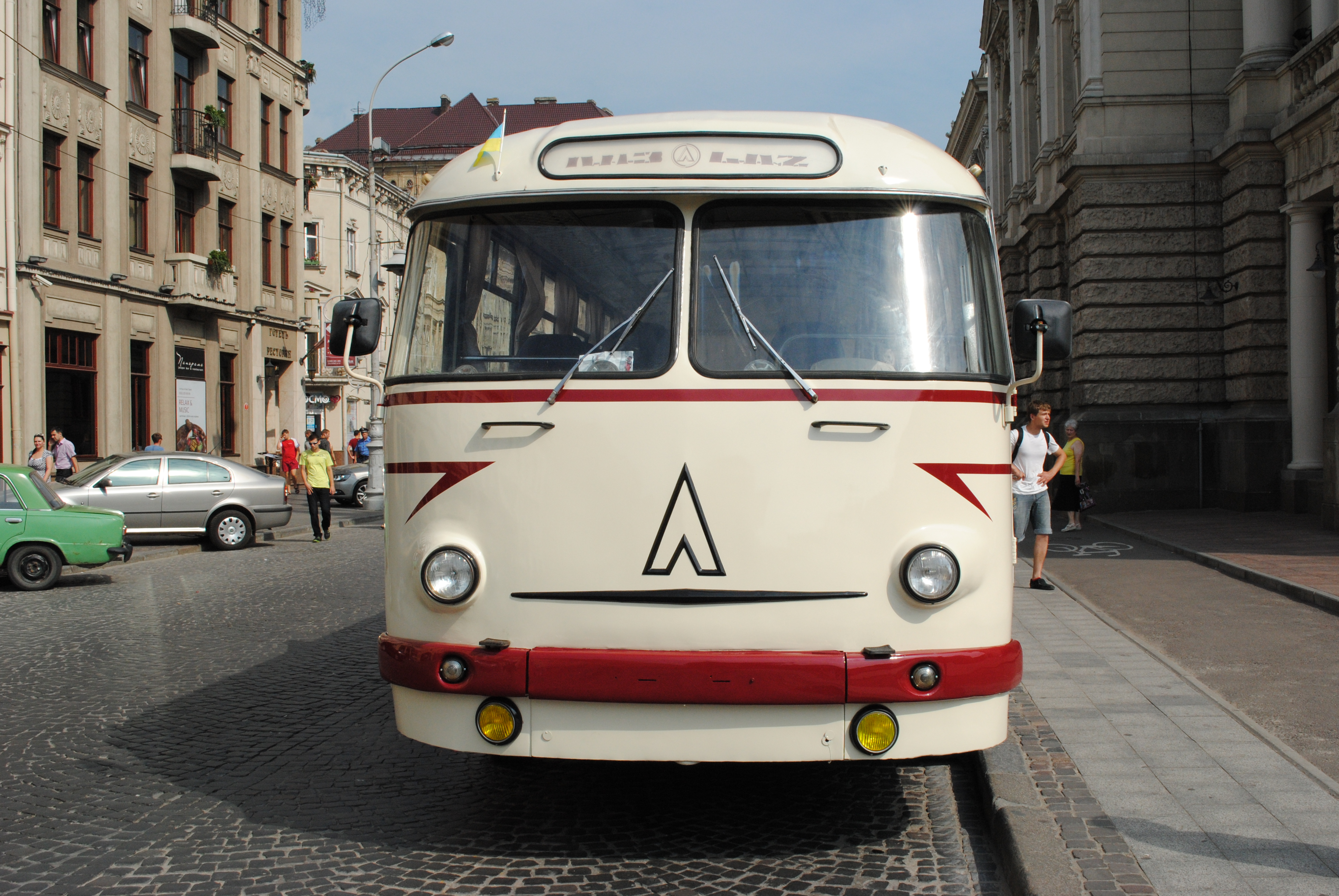 LAZ-697M bus on a Lviv Grand Prix Exgibition